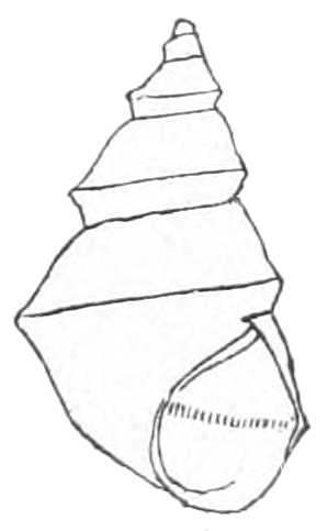 Drawing of apertural view of the shell of Pyrgulopsis nevadensis.